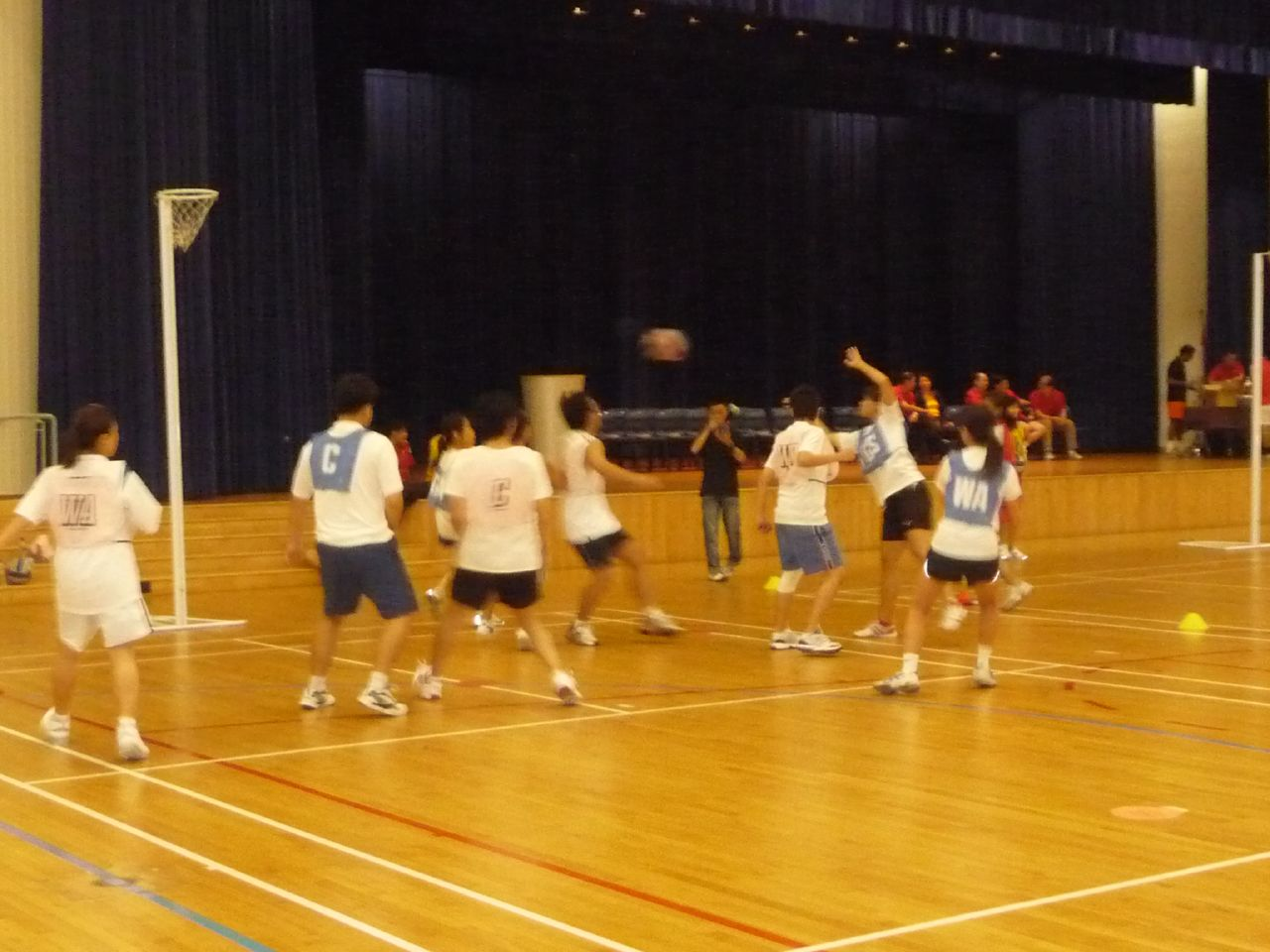 A netball game being played in Singapore.